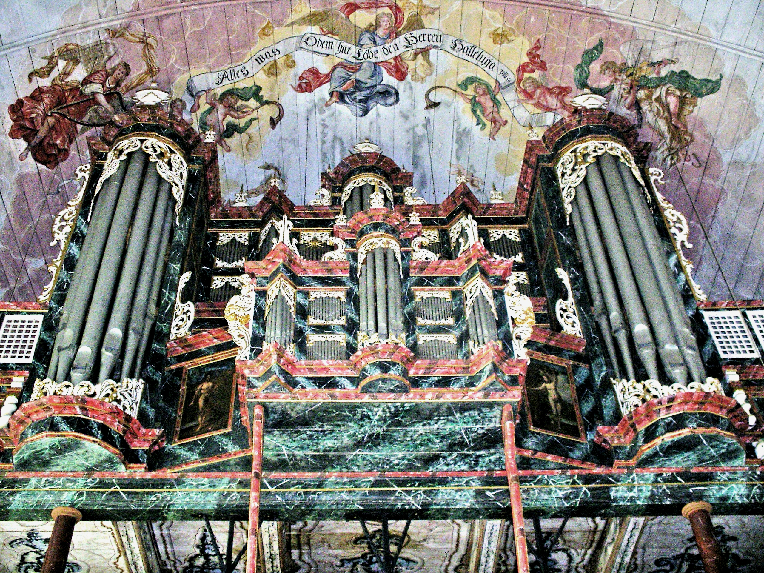 Organ in Neuenfelde